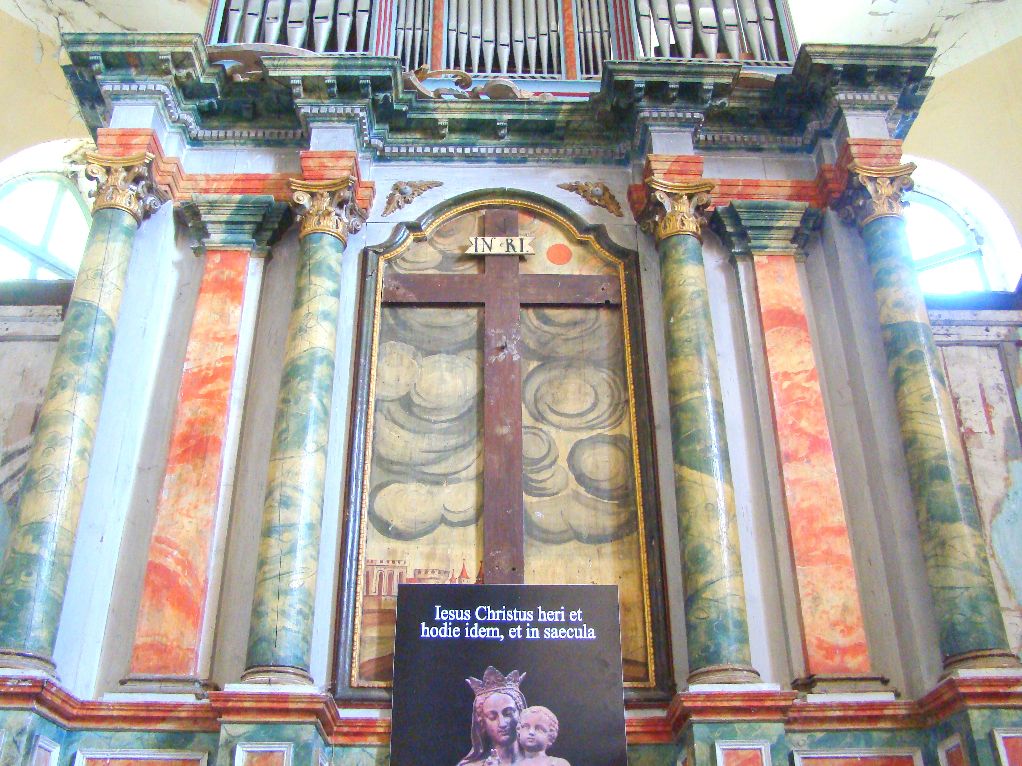 Lutheran church in Hetiur, Mureș County, Romania